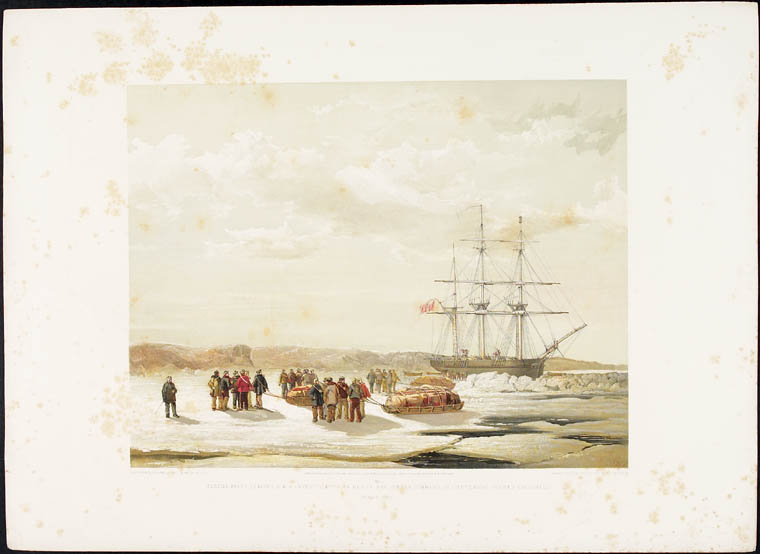 Sledge party leaving HMS Investigator in Mercy Bay under the command of Lieutenant Gurney Cresswell, April 15, 1853.